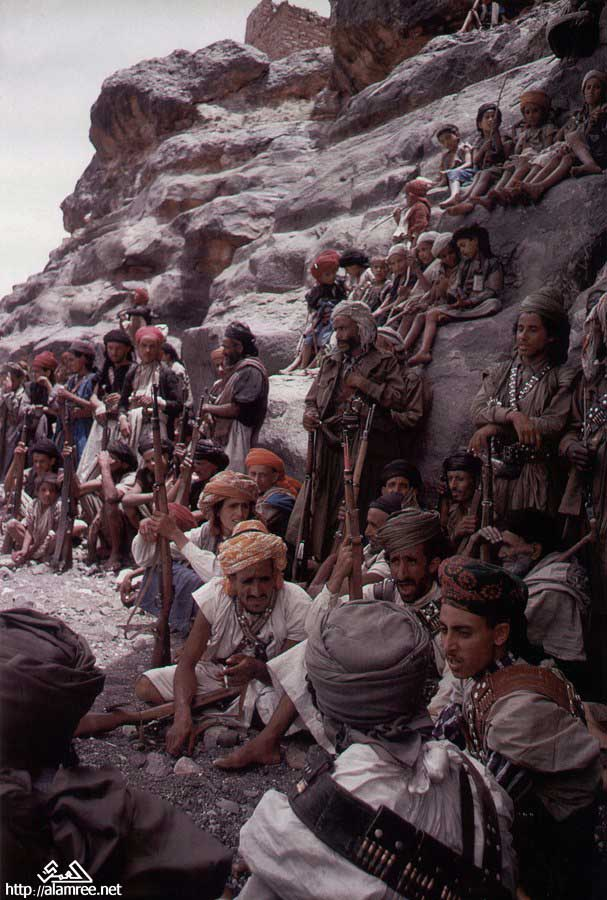 Yemen during the 1962 revolution